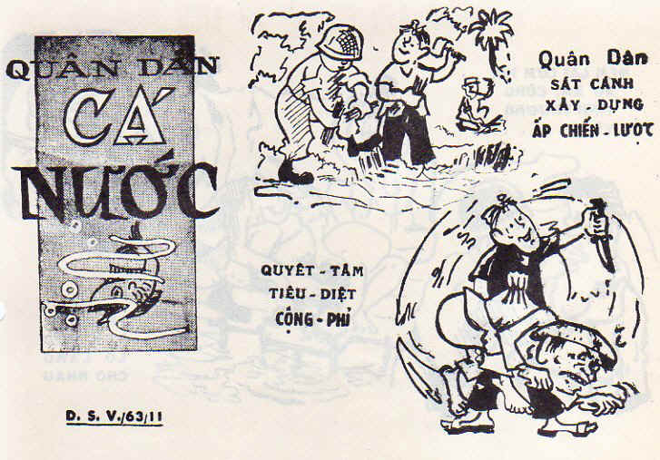 Propaganda poster